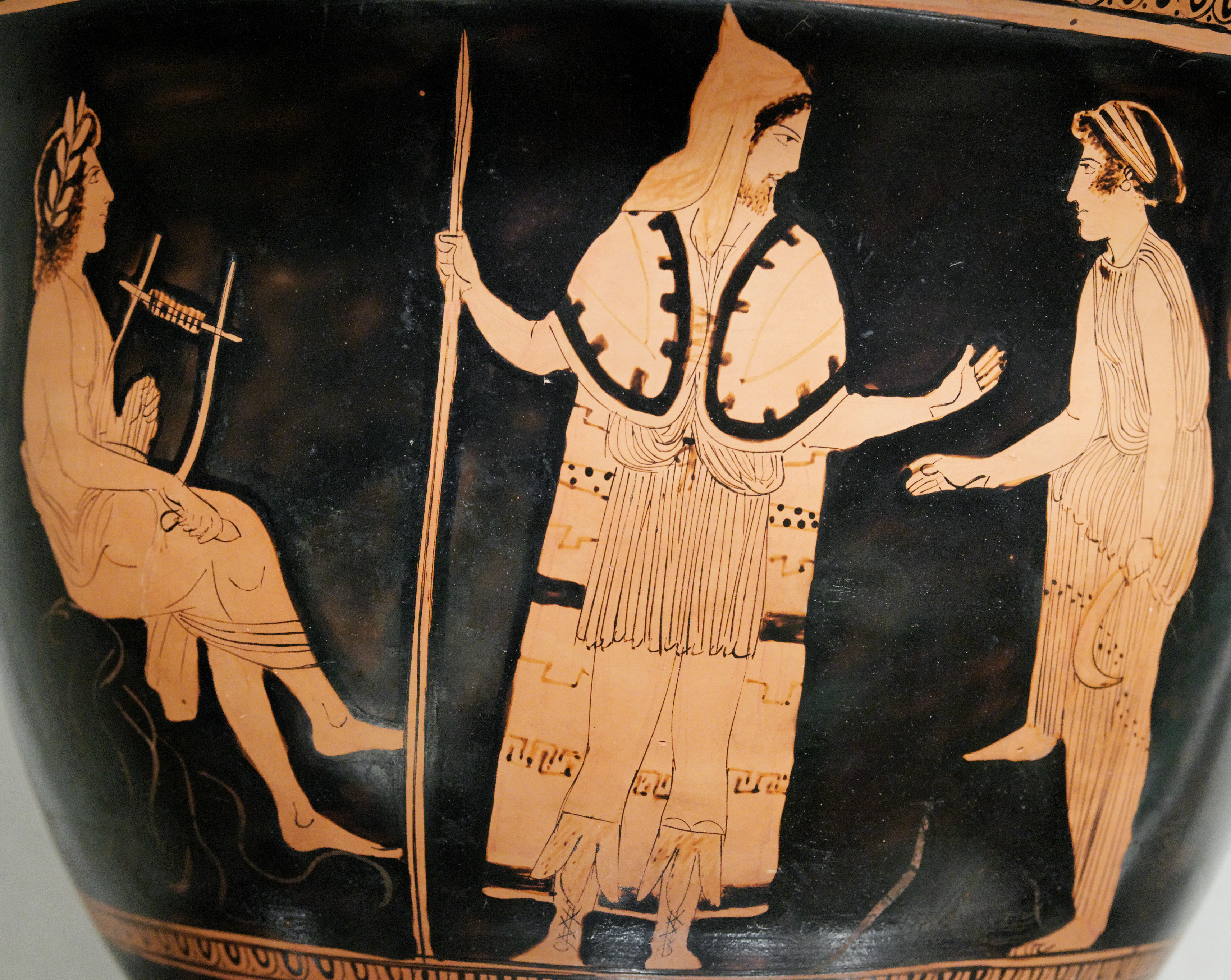 Orpheus amongst the Thracians. Side A of an Attic red-figure bell-krater.